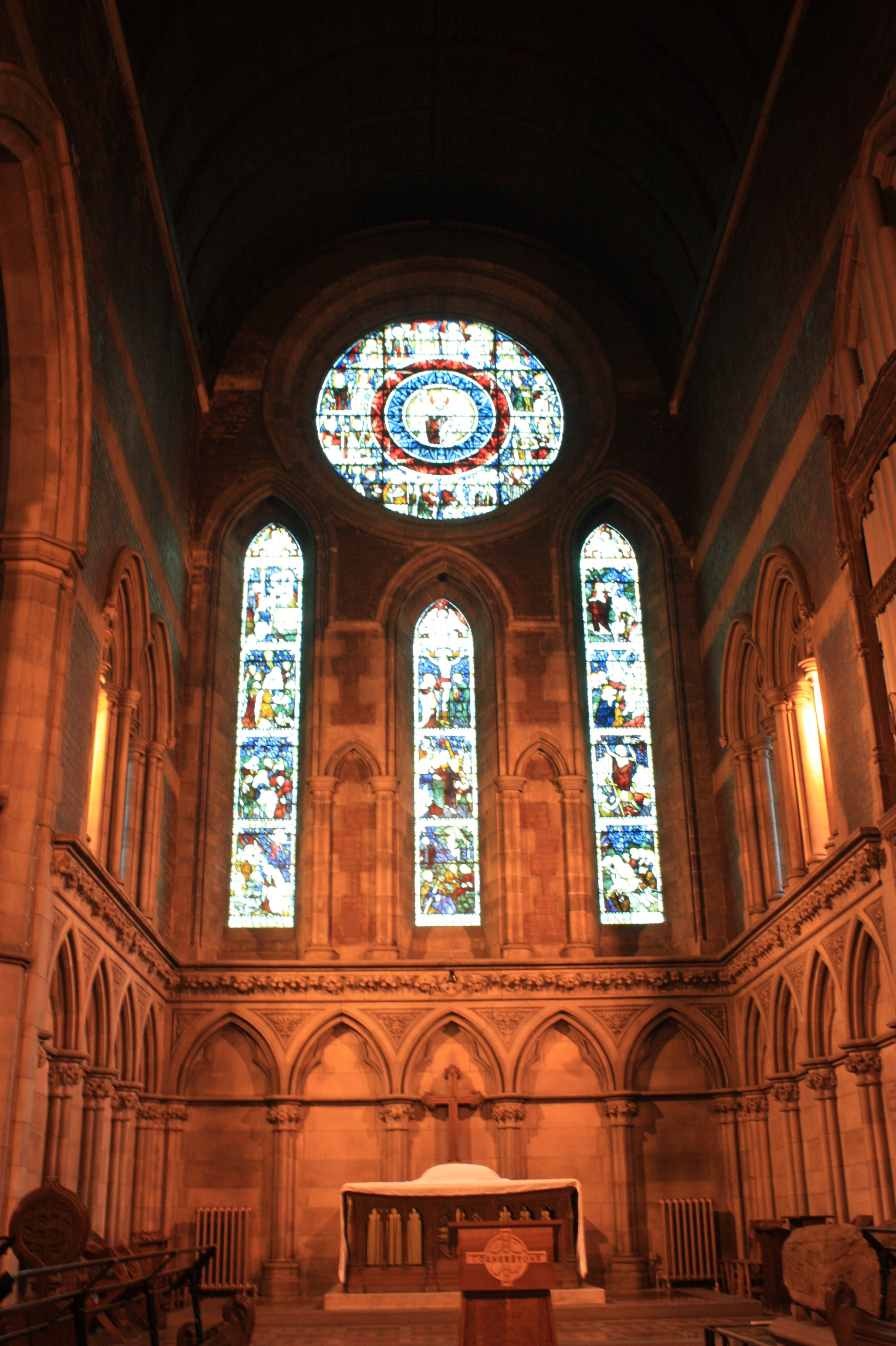 The north window, Old Govan Parish Church